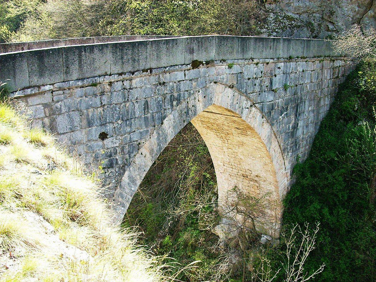 This image was uploaded as part of Trace of Soul 2016.